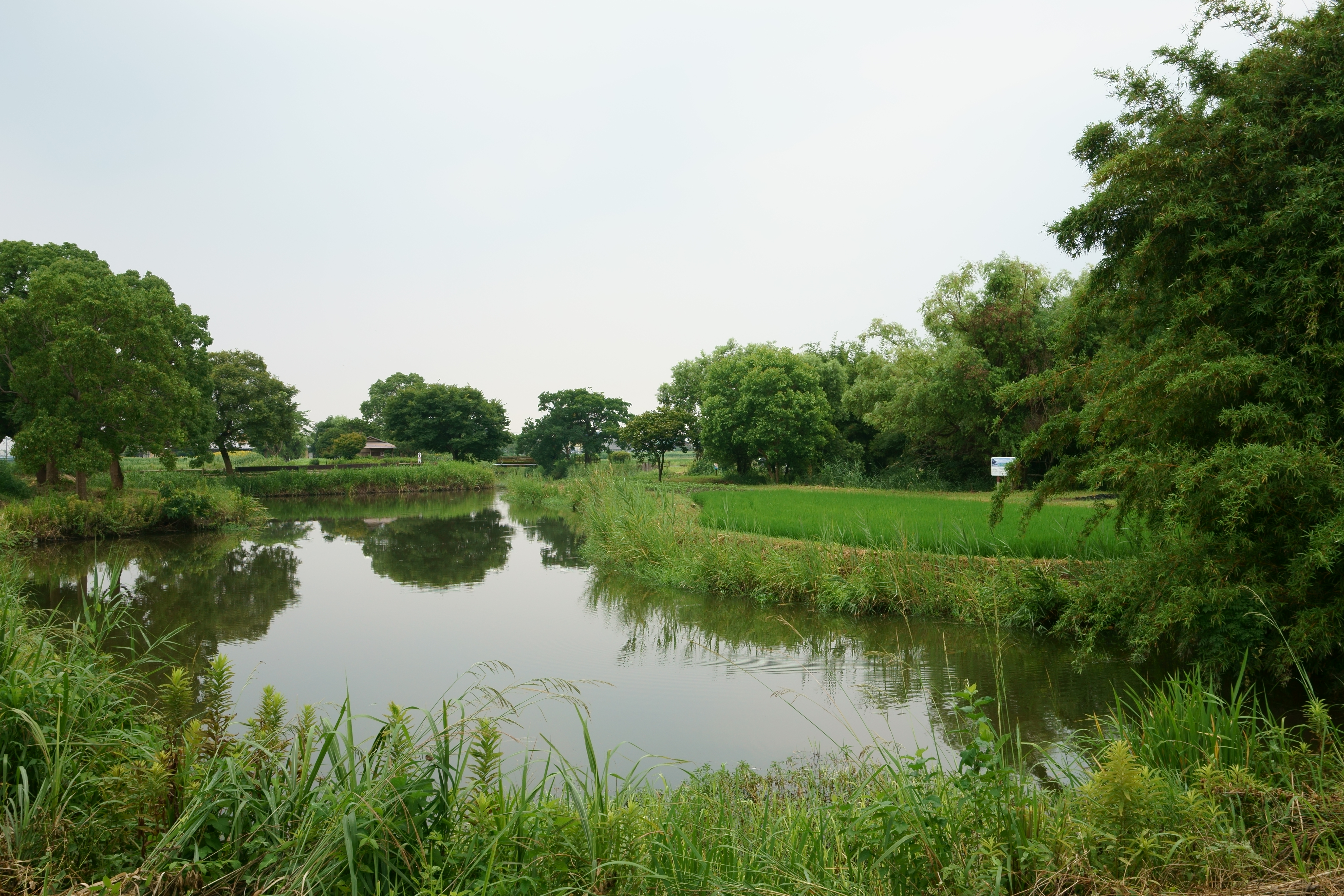 Preserved creeks and paddy fields, at Hyotanjima Park in Hyogo, Saga city, Saga prefecture.